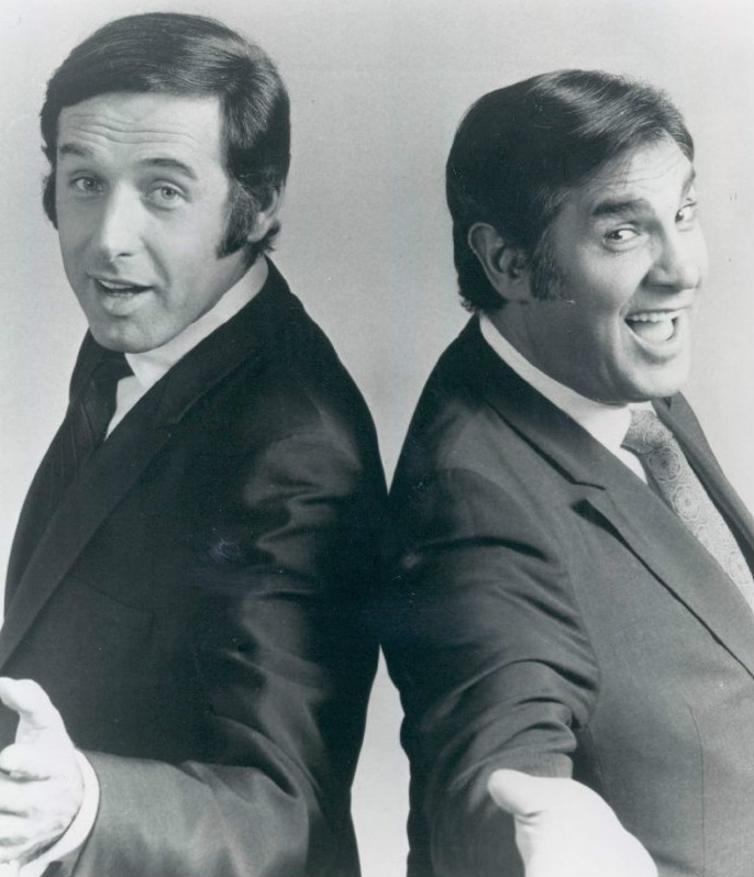 Publicity photo of Tony Sandler and Ralph Young